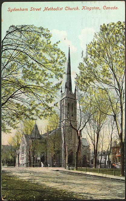 Postcard of Sydenham Street Methodist Church, Kingston, Canada. 5.5 x 3.5 inches.